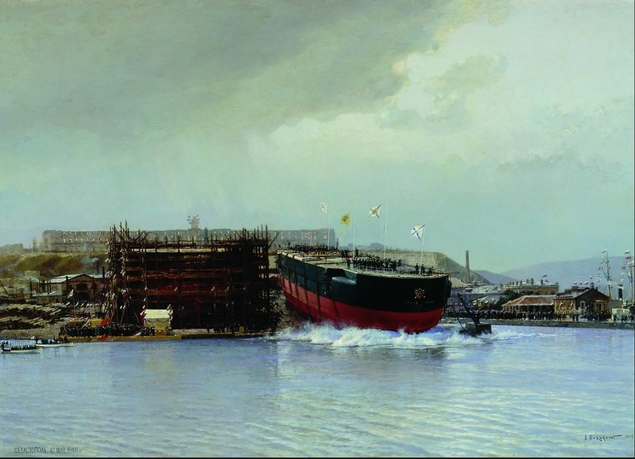 The descent of the battleship "Scesma" in Sevastopollabel QS:Lru,"Спуск броненосца «Чесма» в Севастополе." label QS:Len,"The descent of the battleship "Scesma" in Sevastopol"